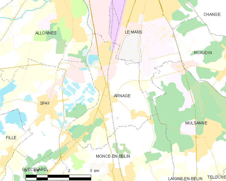 Map of French municipality